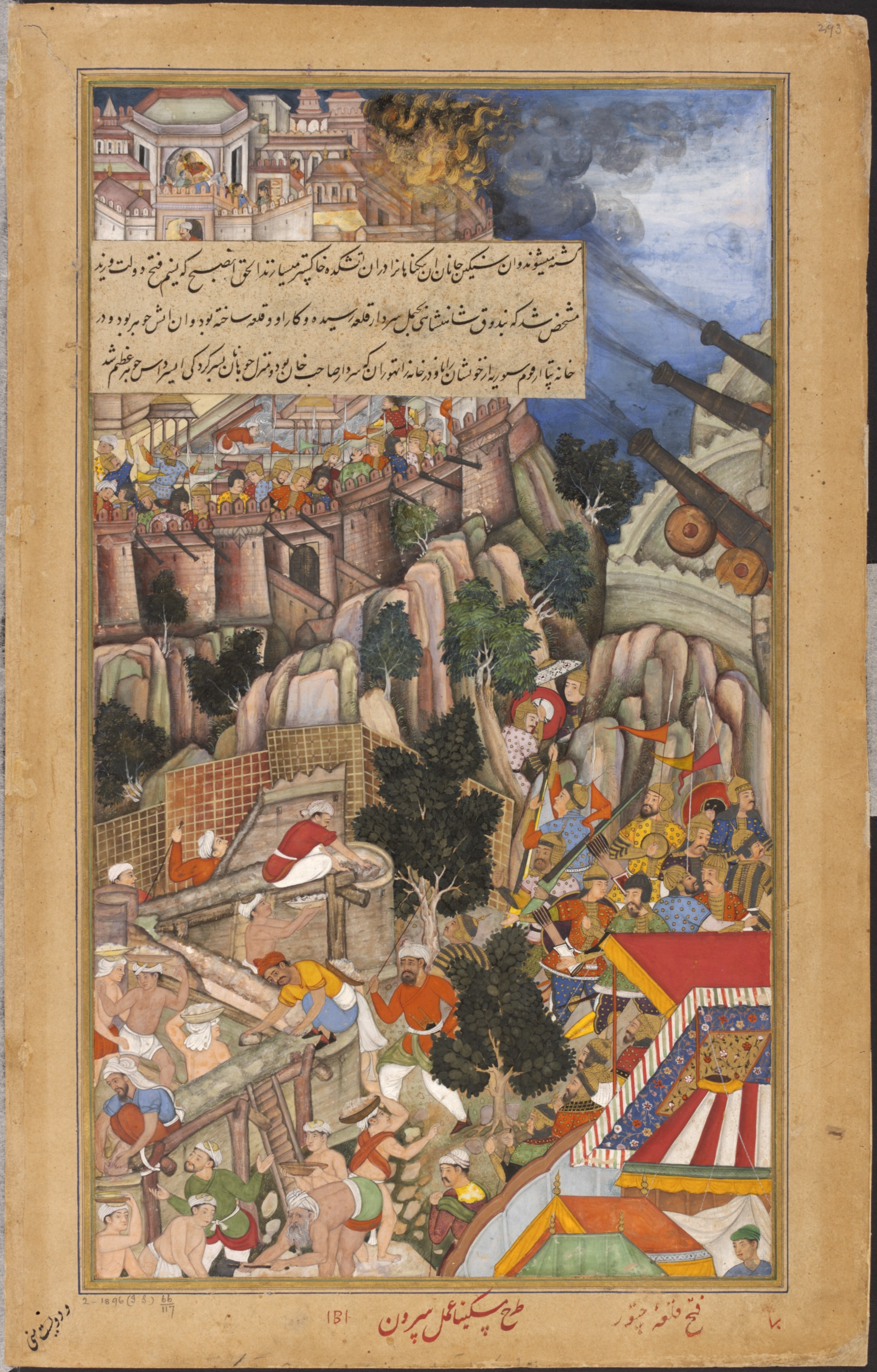 It illustrates an incident when a mine exploded during the Mughal attack on the Rajput fortress of Chitor (Chittaurgarh) in north-west India in 1567, killing many of the besieging Mughal forces. In right side Mughal sappers are shown preparing covered paths to enable the army to approach the fortress, while their opponents fiercely defend themselves.